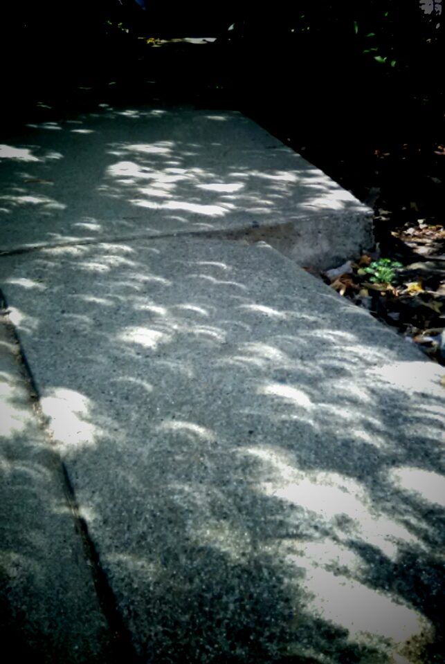 Natural pinhole (optics) formed by tree leaves- Solar eclipse of August 21 2017 in East Wenatchee Washington